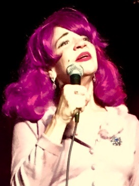 Suzy Williams in 2018. Photographer: Marta Kepes